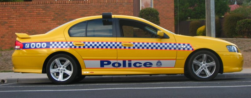 2004–2005 Ford Falcon (BA II) XR8 sedan, used by Victoria Police in Bendigo, Victoria, Australia.